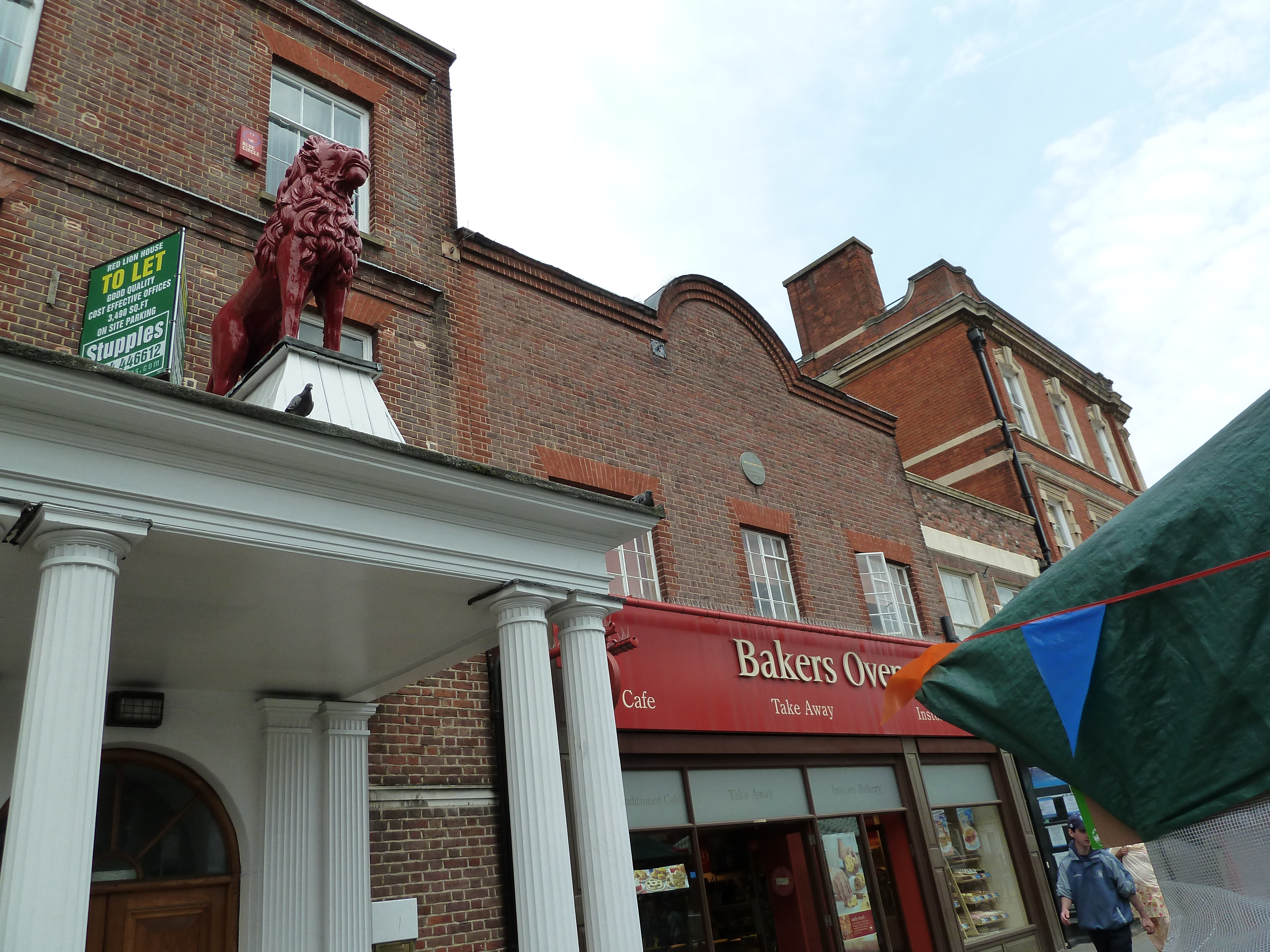 commemorative plaque in High Wycombe